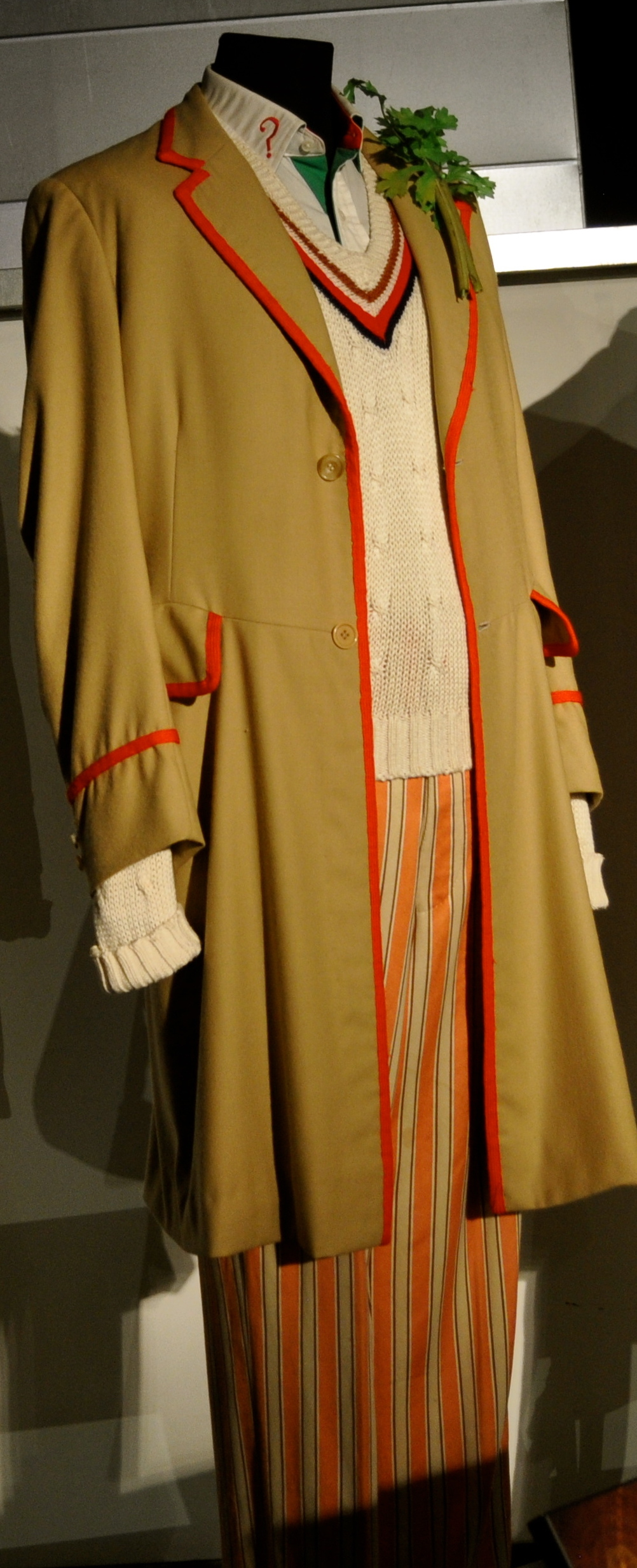 DWE Cardiff Bay, Port Teigr November 2016 Doctor Who Experience